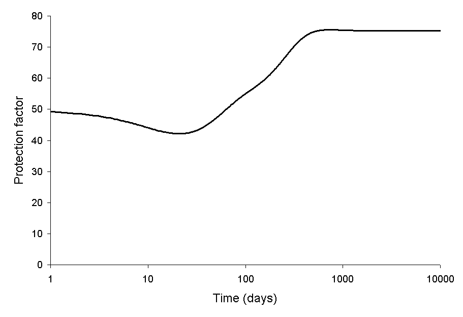 The protection factor provided by 20 cm of concrete sheilding where the source is the idealised Chernobyl fallout. Note that this image was drawn using data from the OECD report, [1], the second edition of 'The radiochemical manual' and 'Radiochemistry and Nuclear Chemistry'